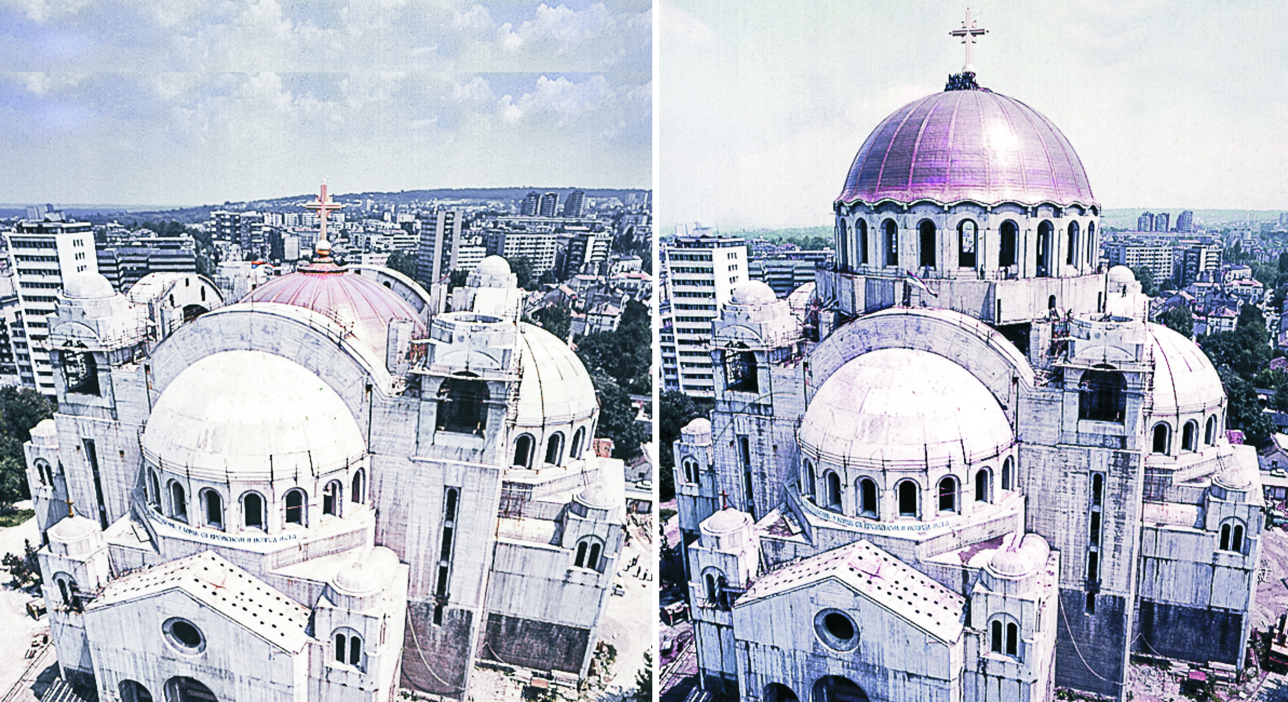 Time lapse dizanje kupole